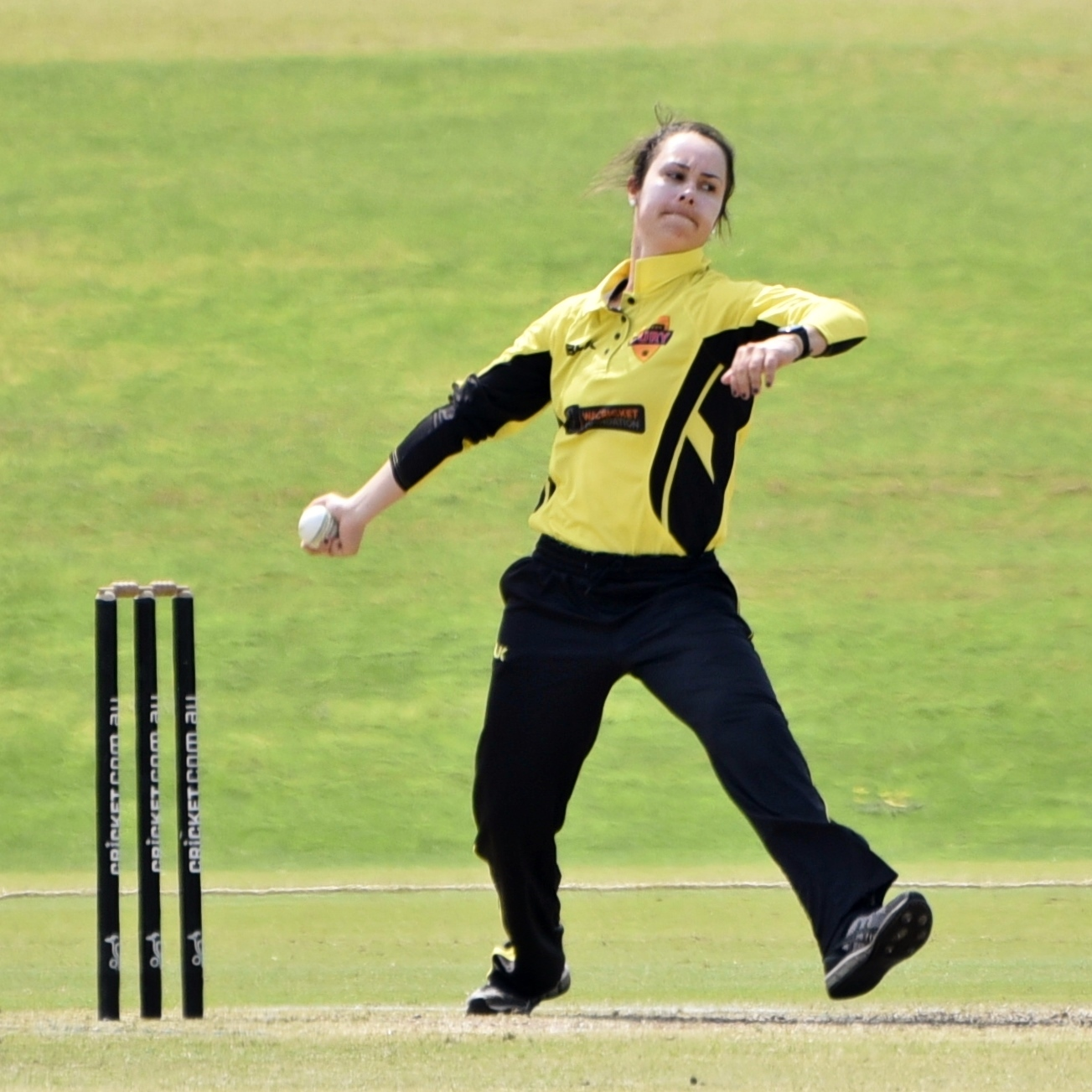 Emma King bowling for the Western Fury during a WNCL clash against the South Australian Scorpions at Murdoch University Sports Oval in Perth.